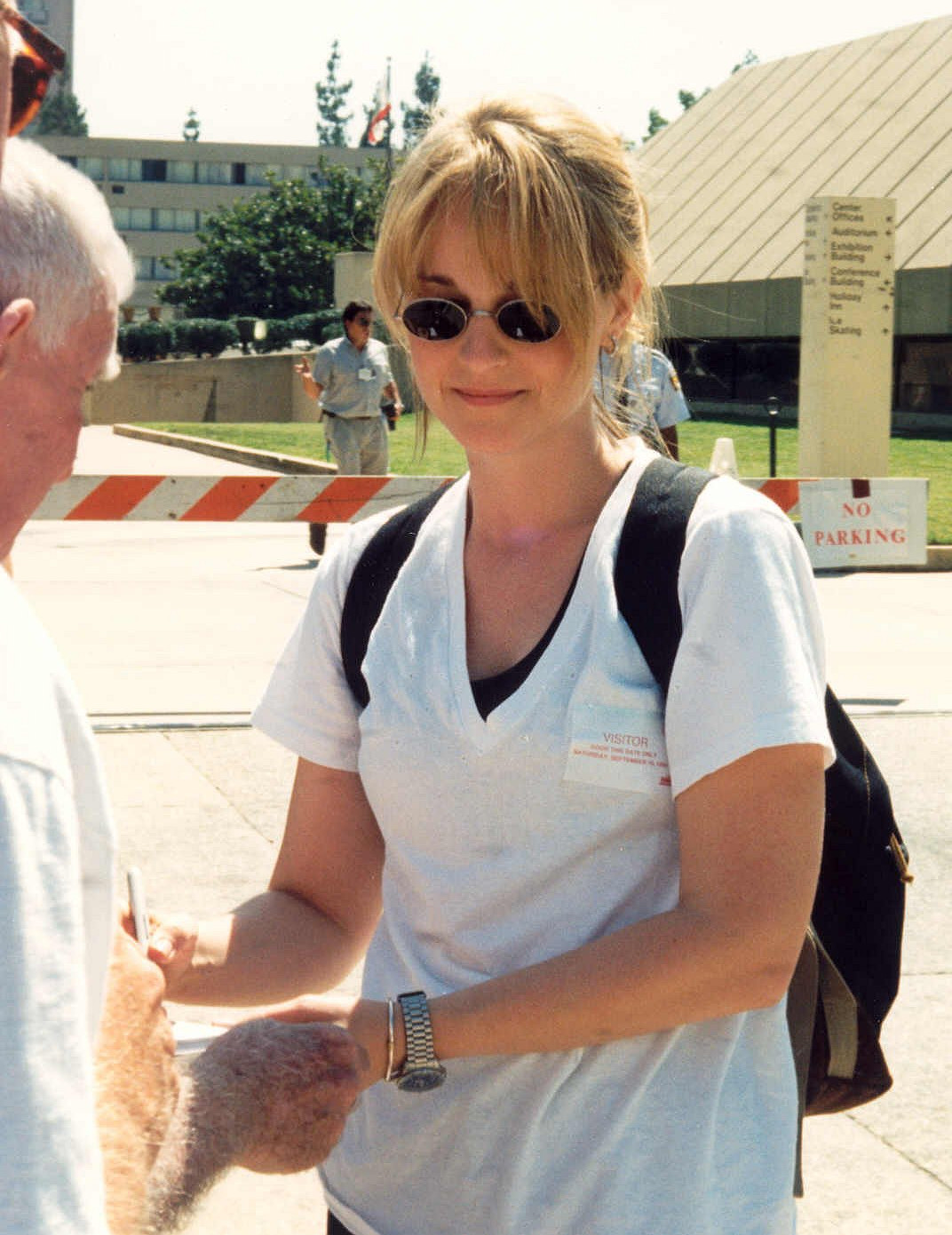 Helen Hunt signs autographs for fans outside the Emmy rehearsal 9/10/94 - Permission granted to copy, publish, broadcast or post but please credit "photo by Alan Light" if you can